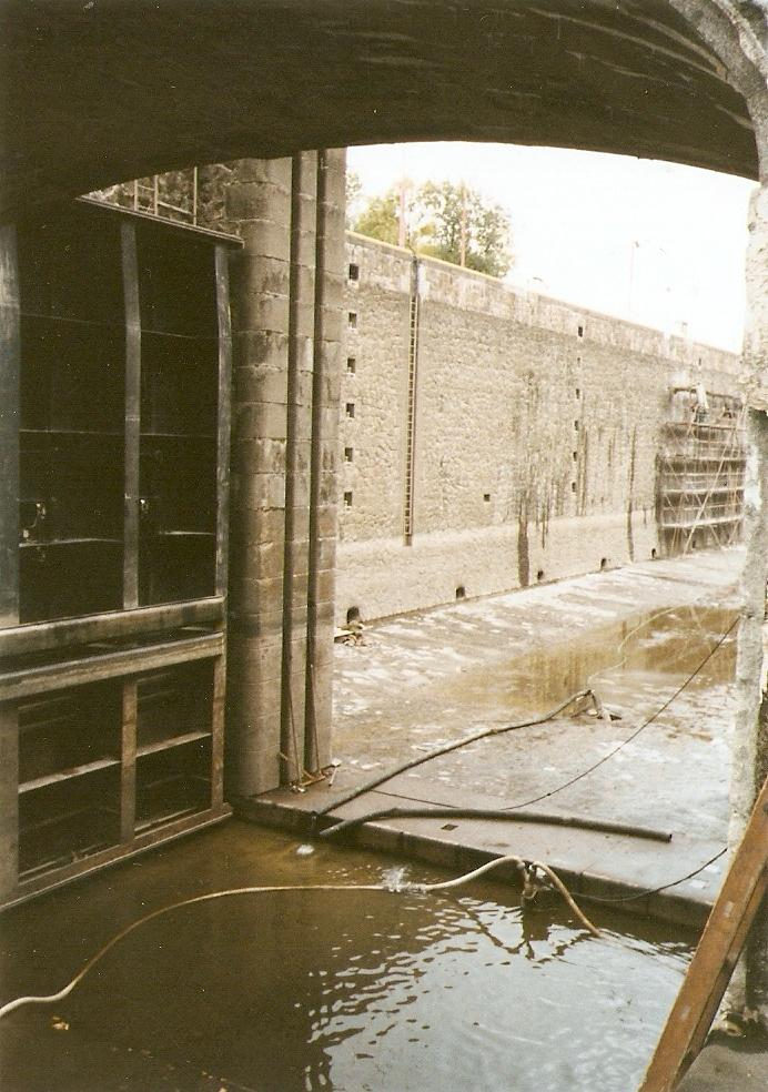 Down stream gate of large Hořín canal lock. Lock in maintanance and without water. For normal water level notes end of laders at lock wall. Lateral canal at Vltava river in Czech Republic.